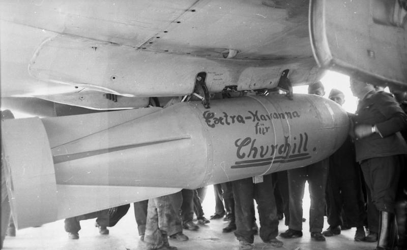 Information added by Wikimedia users.vermutlich eine SC 1000 "Hermann"-Bombe